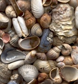 A selection of seashells, hand-picked from the beach at Clacton-on-Sea, England, by the photographer. Photo by user:sannse.